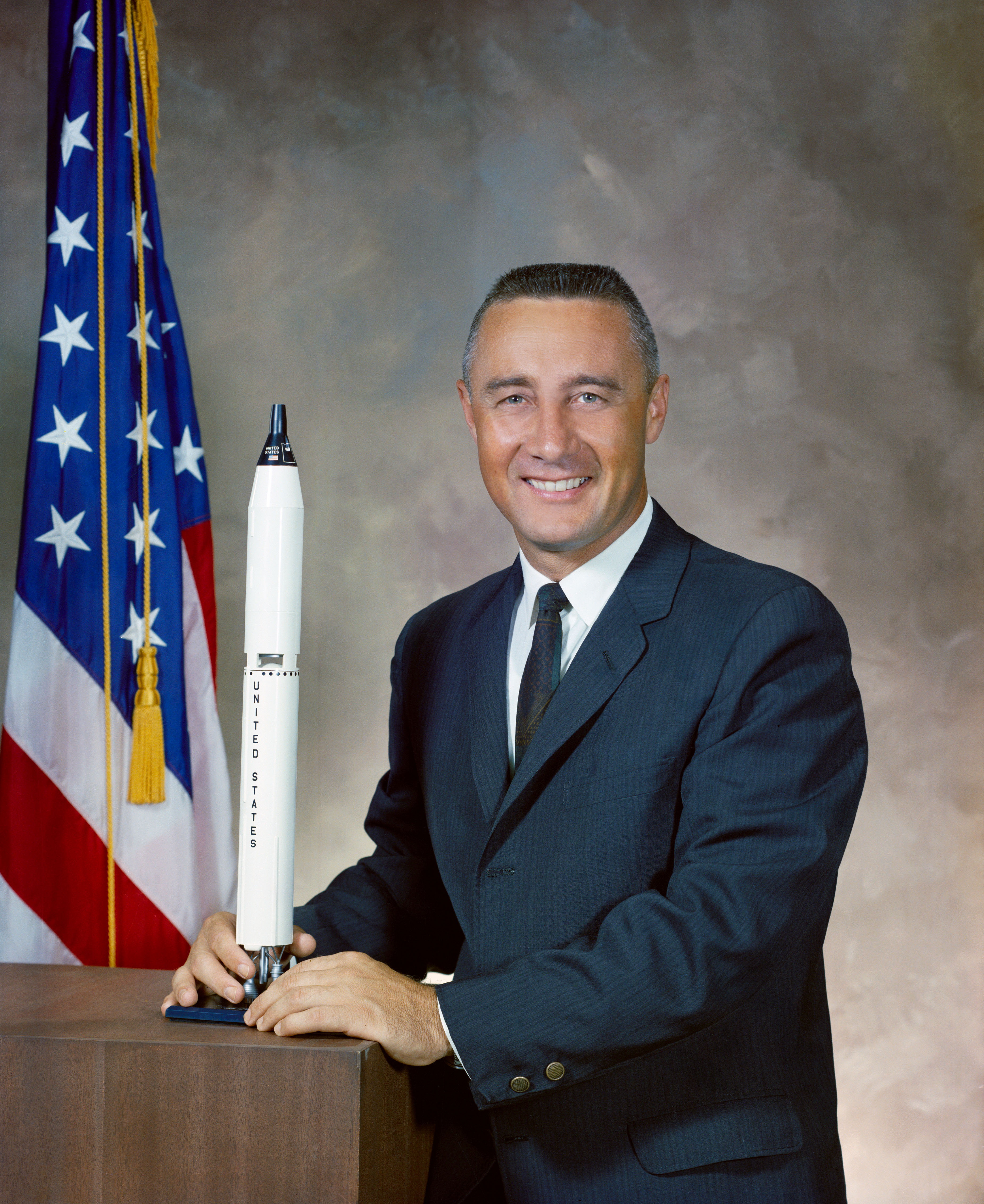 Portrait of Gus Grissom